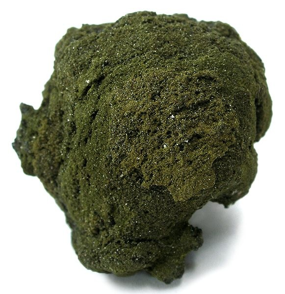 Vésigniéite Locality: Mashamba West Mine, Kolwezi, Western area, Katanga Copper Crescent, Katanga (Shaba), Democratic Republic of Congo (Zaïre) (Locality at ) Size: 2.7 x 2.5 x 1.6 cm. A very rare barium, copper vanadate, this species is almost impossible to find in large concentrated form as the present specimen. This glistening, sparkling piece is composed of microcrystalline vesignieite on a cast of the same mineral after something else (now rounded). It is a hollowed cast, complete inside and out, covered all over by sparkling sugar-like secondary crystals. Ex. Bill Pinch Collection.